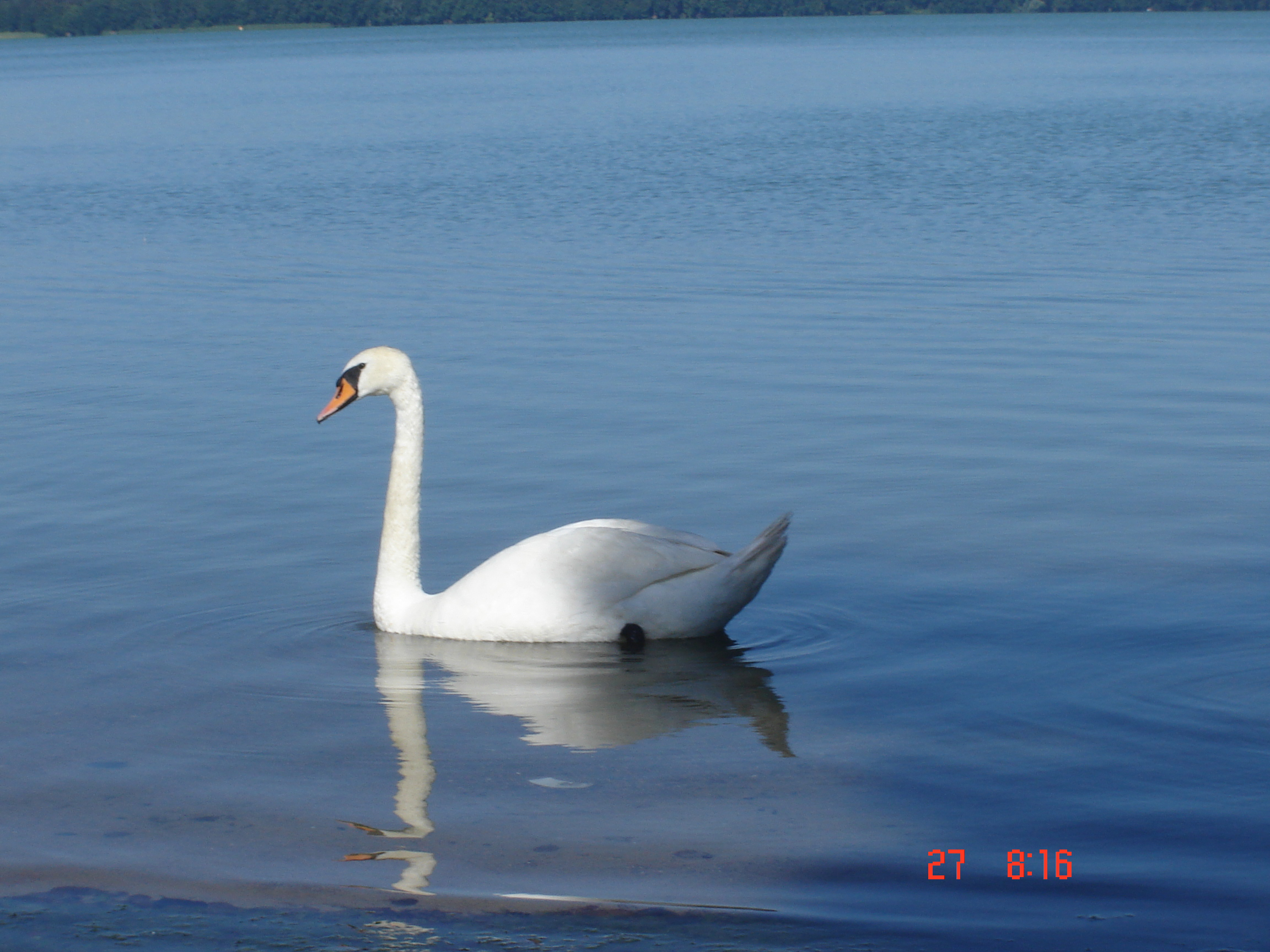 Beautiful swan that live on Lake Drawsko in Poland